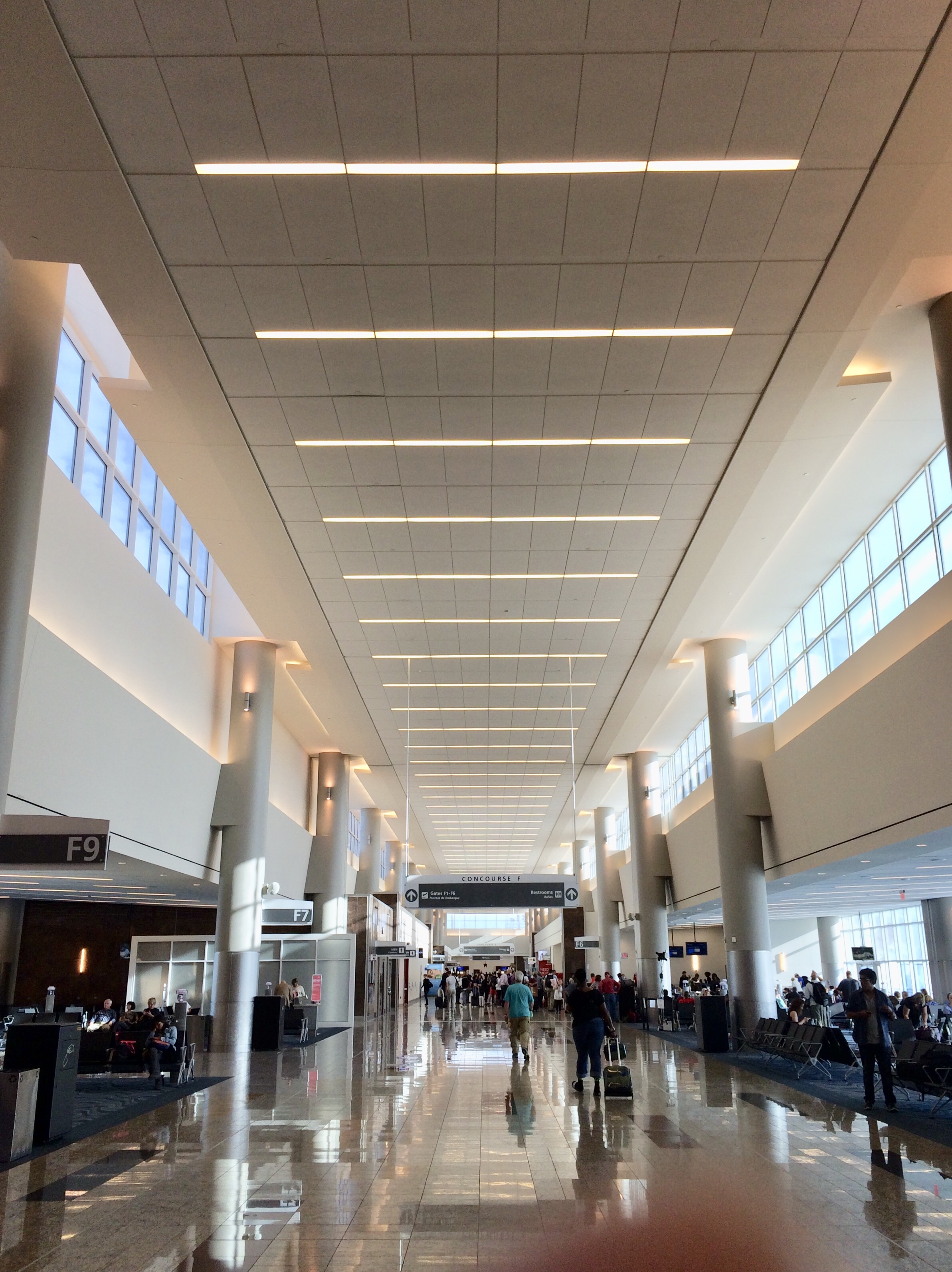 Interior view of Concourse F